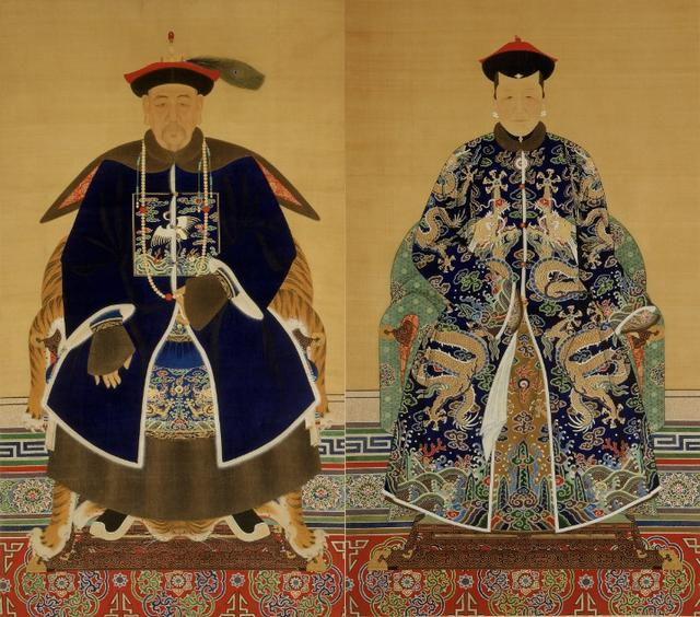 The portrait of Lirongbao, father of Empress Xiaoxianchun of Emperor Qianlong, and his wife.